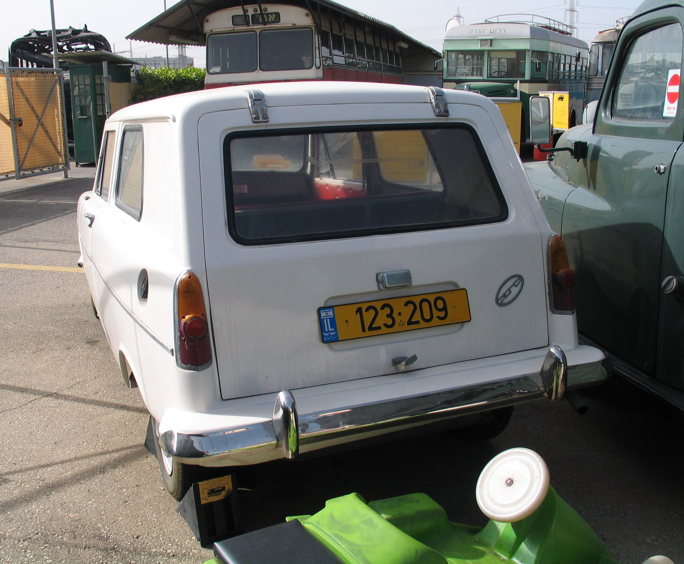 Autocars Susita 12/50, in the Egged Museum, Holon, Israel.